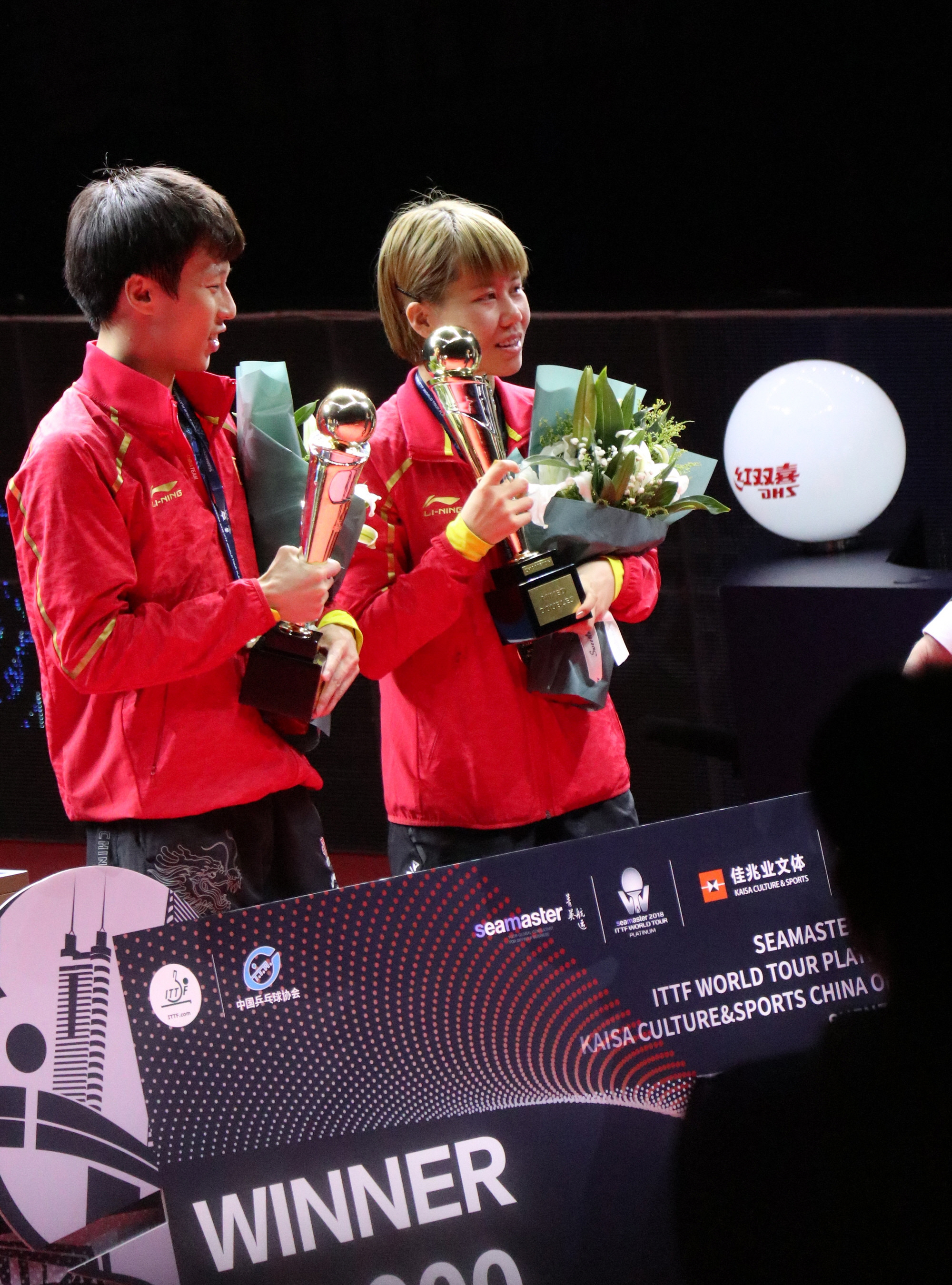 Lin Gaoyuan and Chen Xingtong on 2018 ITTF World Tour Platinum Kaisa China Open